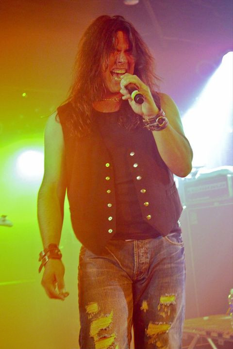 WAR OF ROCK TV Episode 1, Part 2 - Mark Slaughter singing live on August 20, 2011 at the Iron Horse, Birmingham, AL